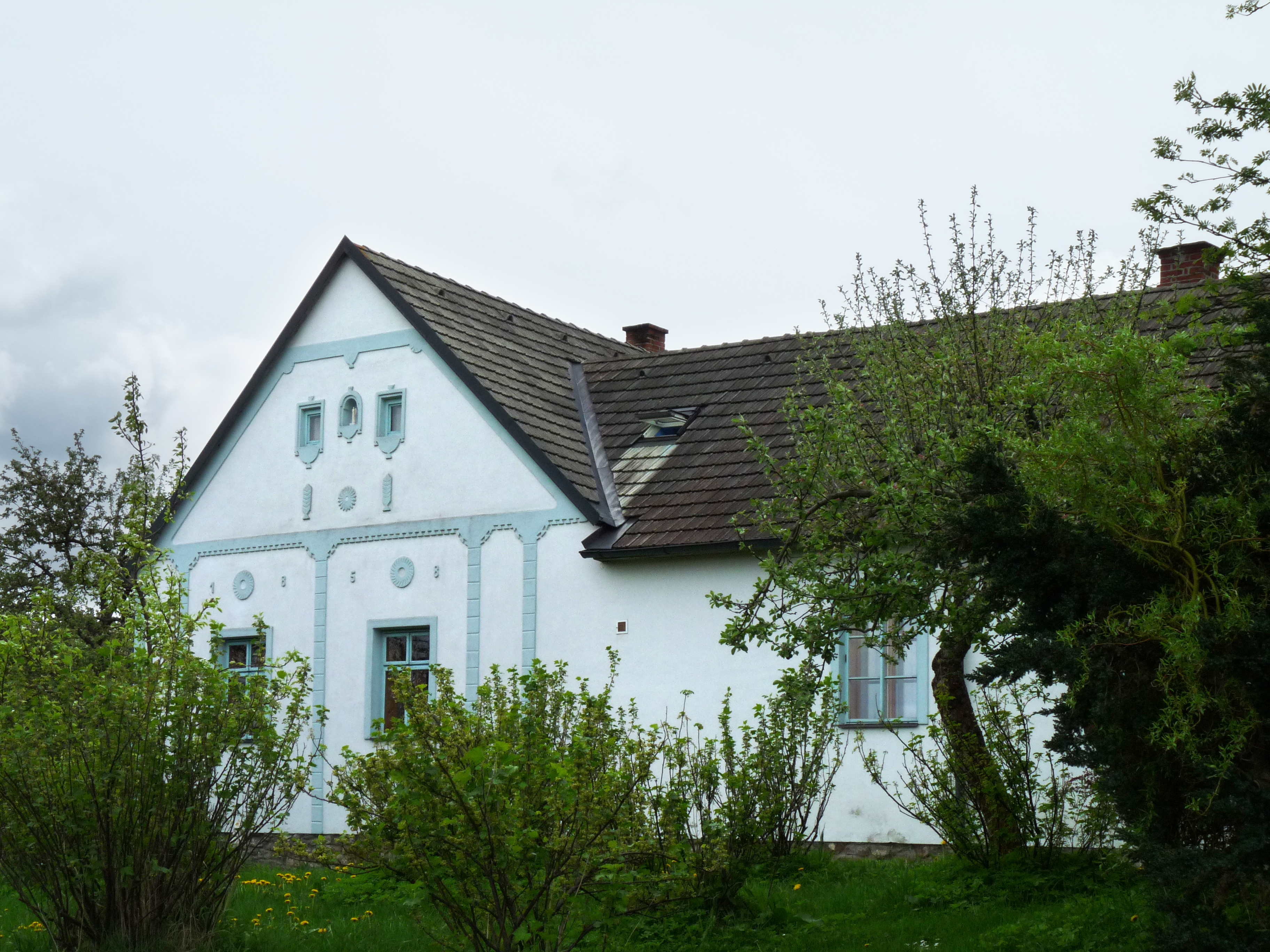 House No 23 in the village of Sumrakov, Jindřichův Hradec District, South Bohemian Region, Czech Republic, part of Studená.